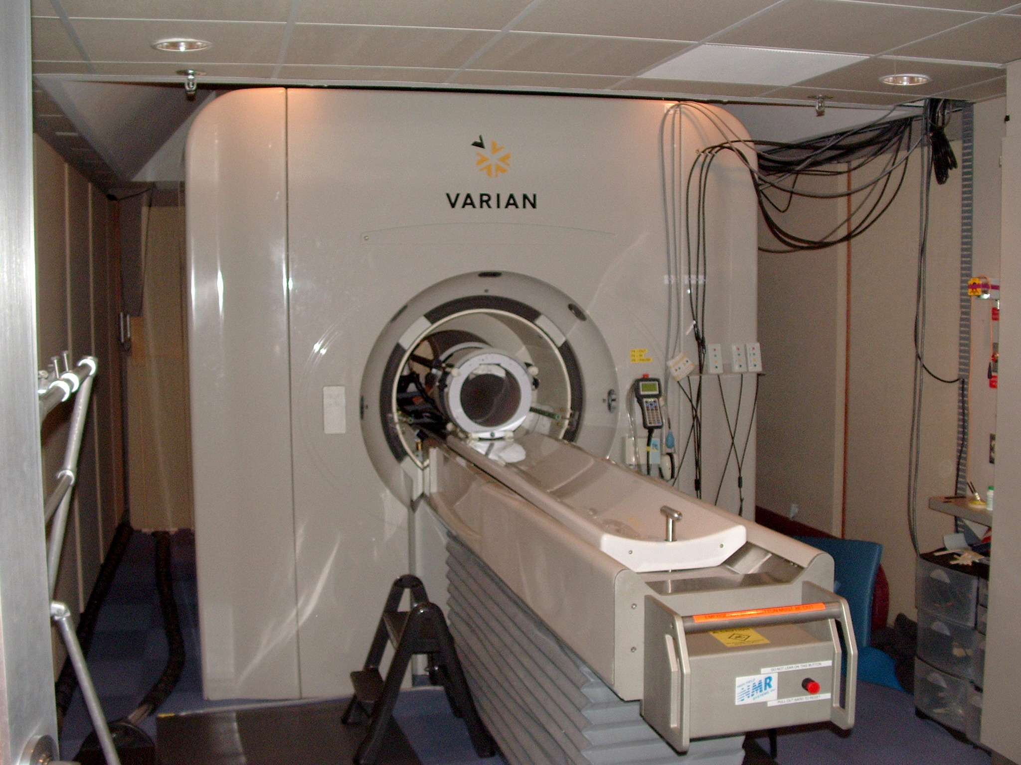 Varian 4T fMRI, part of the Brain Imaging Center, Helen Wills Neuroscience Institute at the University of California, Berkeley.